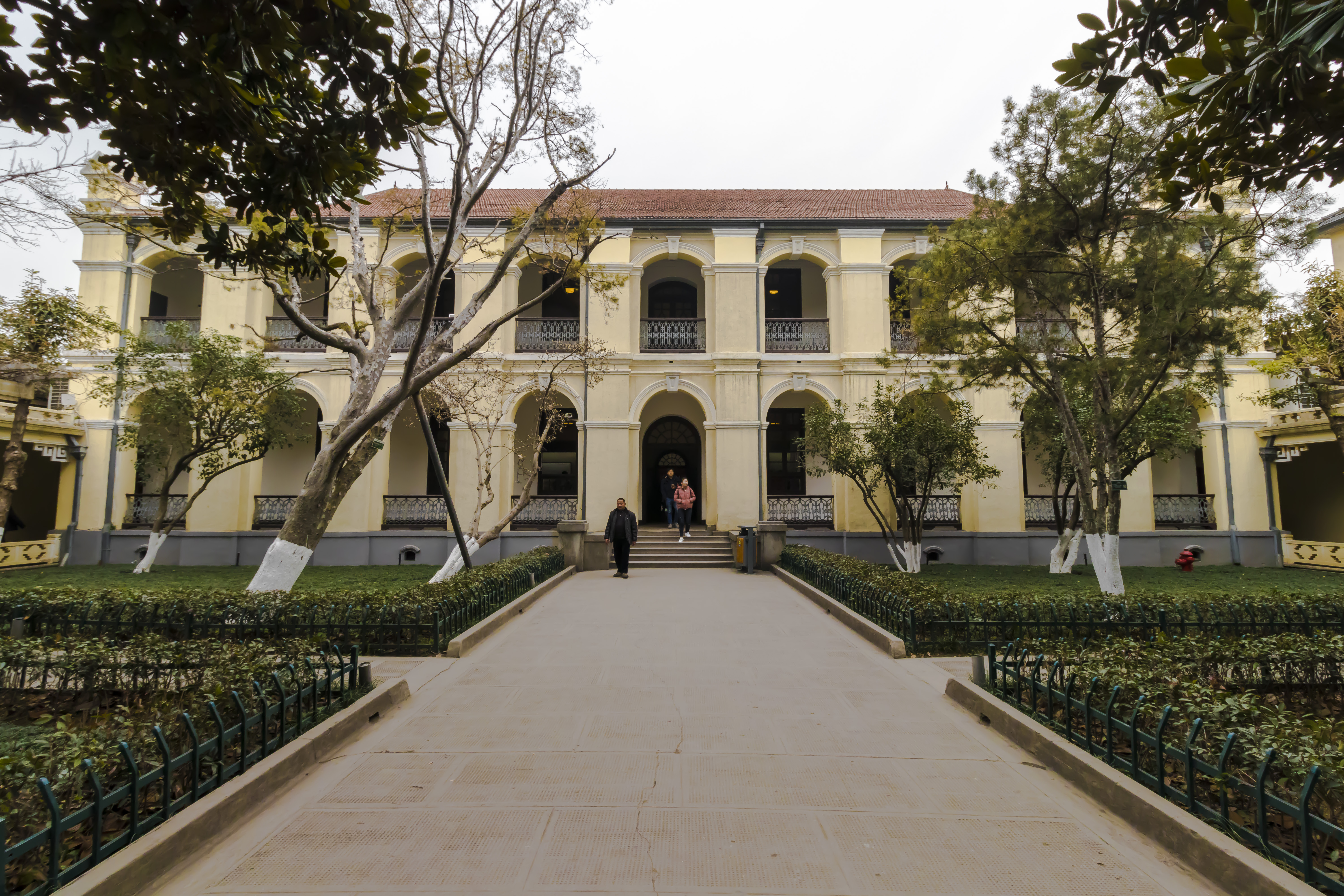 House of the Government Affairs, Presidential Palace, Nanjing